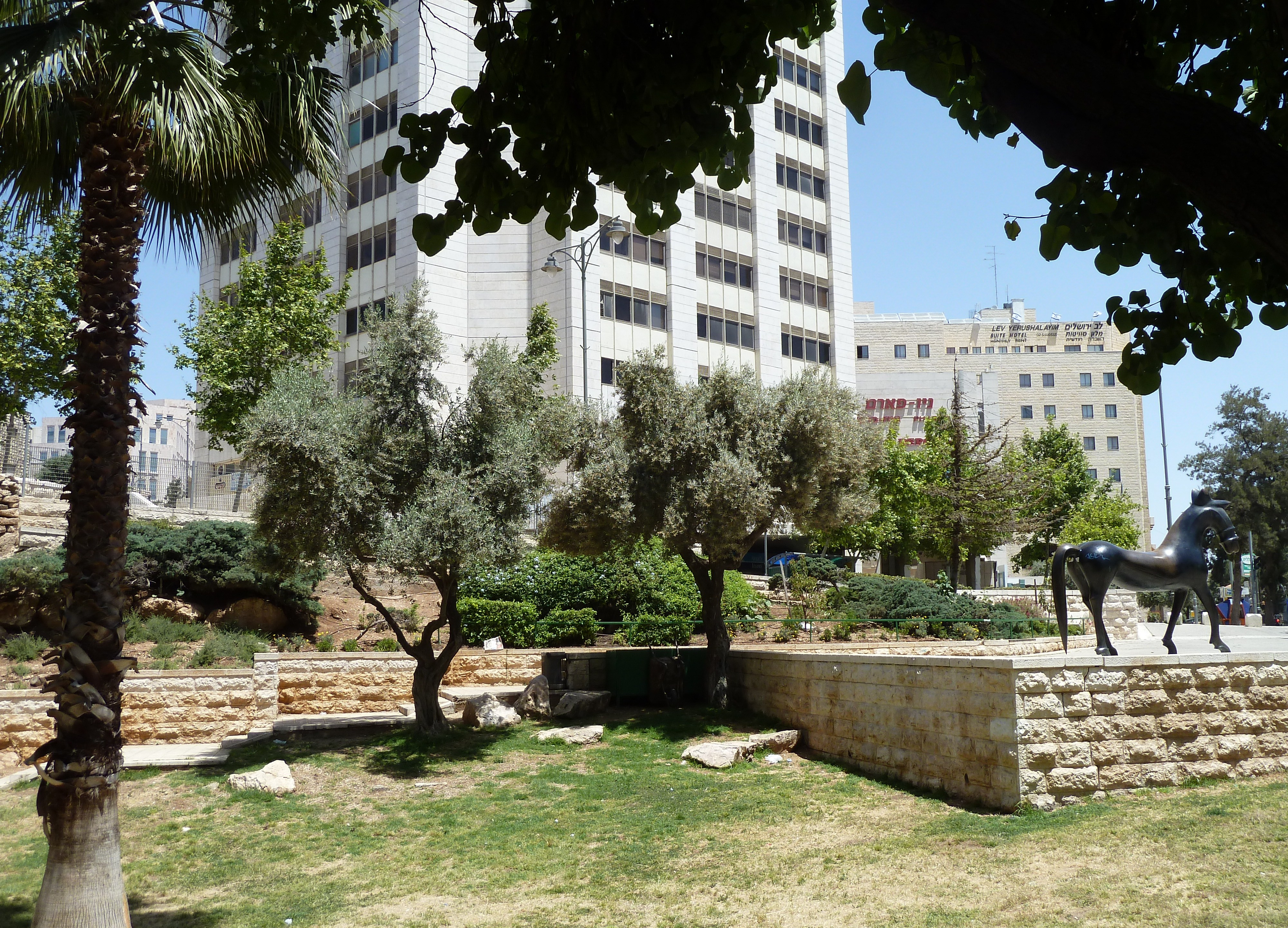 Menorah Garden (Gan HaMenora) (also, Horse Garden - Gan HaSus), Jerusalem, Israel